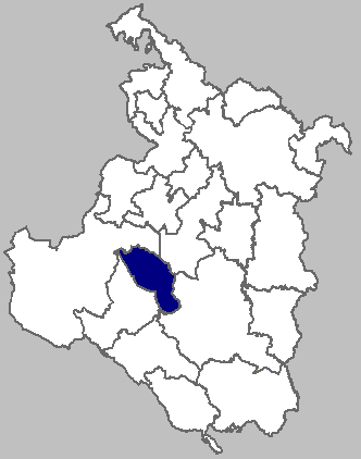 Self-made map of Tounj municipality within Karlovac County.